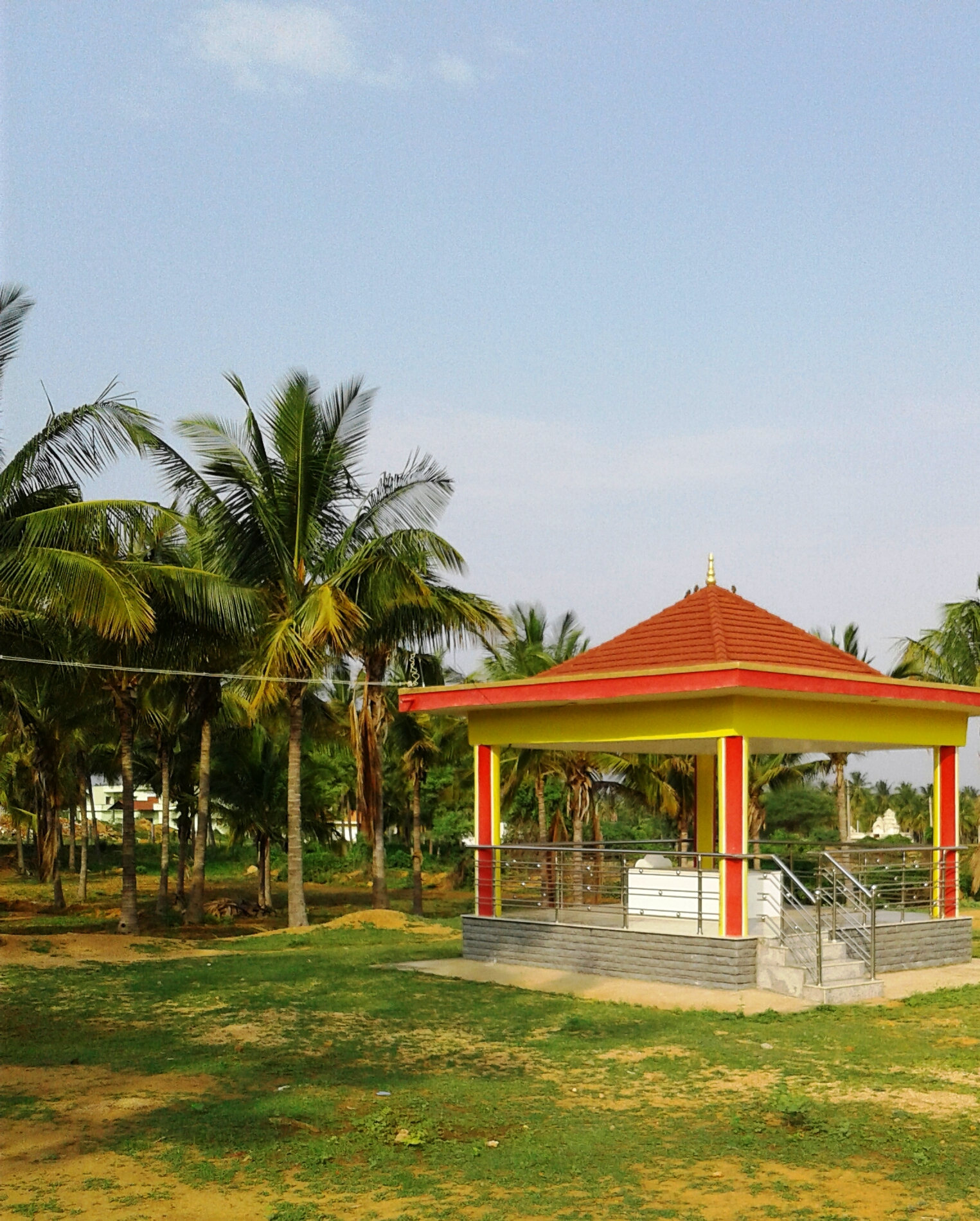 Malekal Tirupathi Hill Temple, Arsikere town, Hassan district, Karnataka state, India.